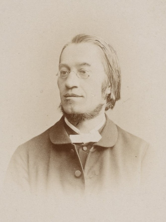 Peter Reinhold Grundemann